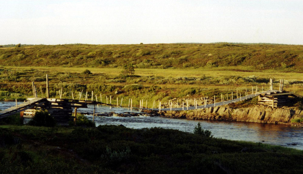 Suspension bridge over Chavanga River